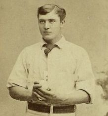 Cropped image of Jack Rowe (1856 – 1911) from 19th Century baseball card. The source of the image is a 19th Century baseball card. Because it was published before 1923, it is believed to be in the public domain in the United States.